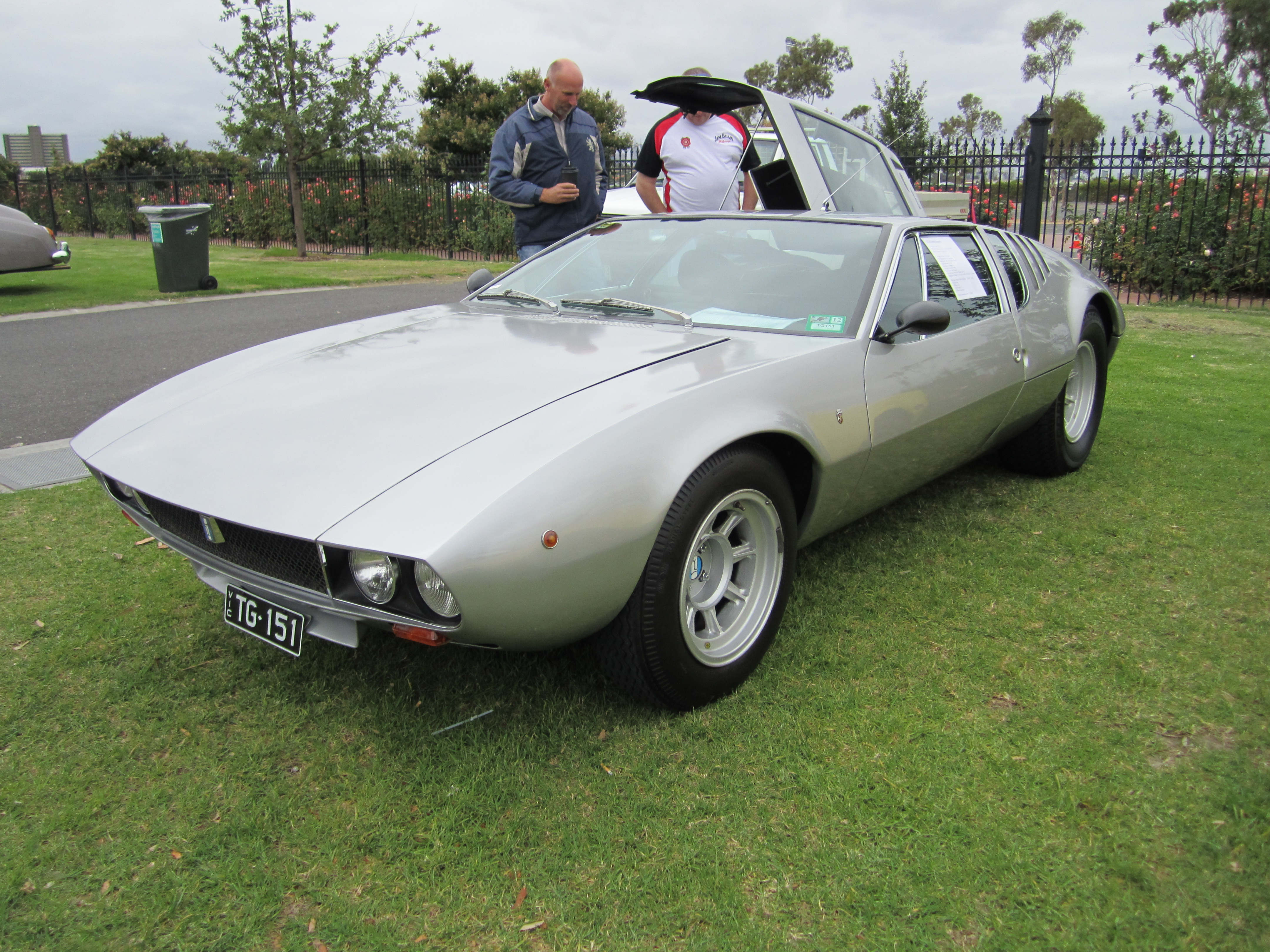 DeTomaso was an Italian company known for producing sports and luxury vehicles. The 1st Sports car was the 1963-66 Vallelunga with mid mounted Cortina engine. The 2nd was this car, the Mangusta, built from 1966-1971, with help from Carroll Shelby, it had mid mounted 289 Ford V8 engine (until 1968, then 302) and steel and aluminium bodywork from Ghia, only 400 were made. The 3rd, the 1971-93 Pantera with 351 Cleveland Ford V8. The last was the 1993-04 Guara (BMW V8 til 98 then Ford V8)